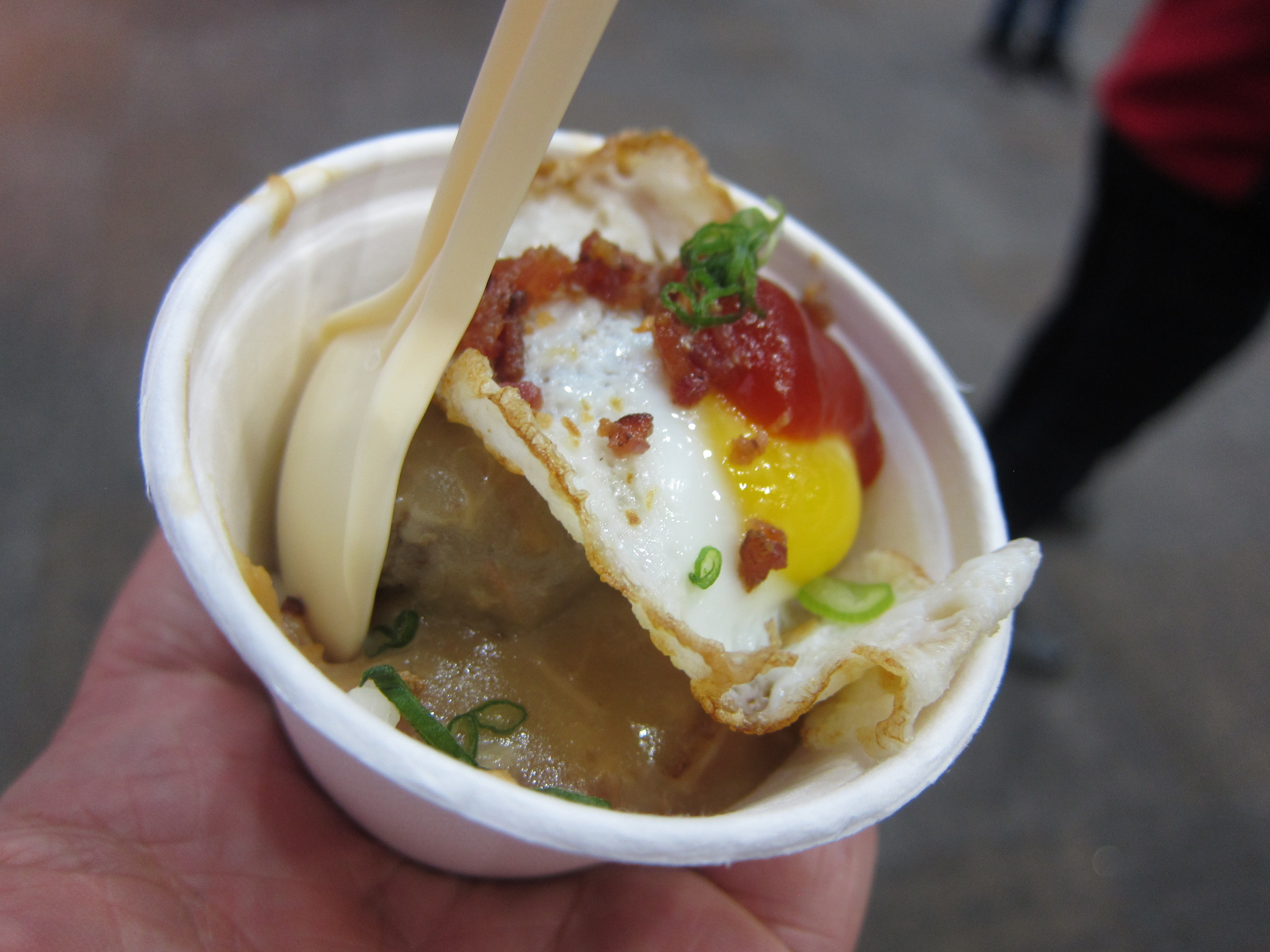 Sunda - Bacon Wagyu Loco Moco - Applewood Smoked Bacon, Wagyu Beef, Bacon Gravy, Quail Egg, Jasmine Rice, Spicy Banana Ketchup